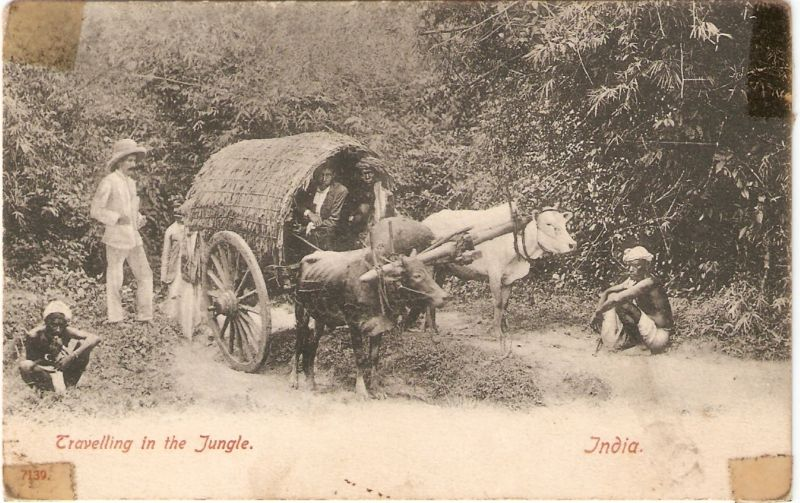 Traveling in the jungle in India